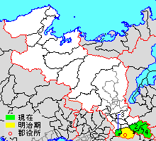 Location Map of Soraku District in Kyoto-fu, Japan